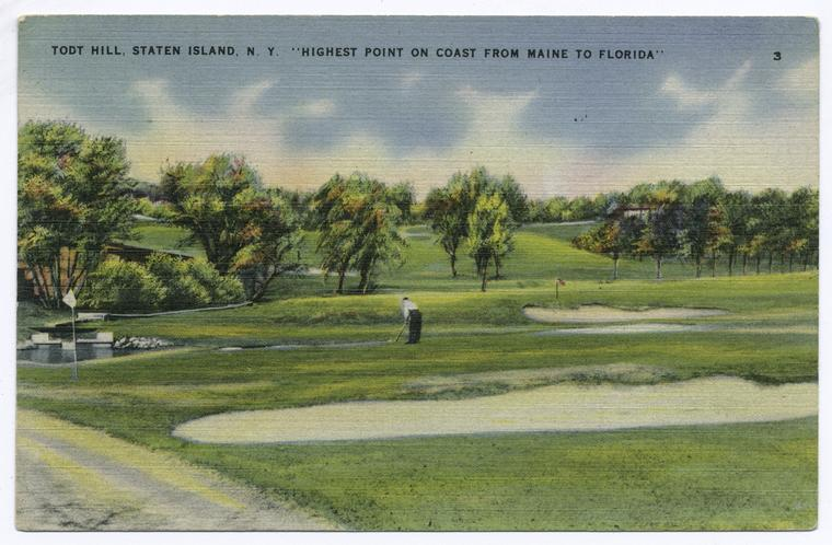 Post card of Richmond County County Club on Todt Hill in Staten Island New York showing 3rd and 5th greens. US Eastern seaboard highest point. Obtained from NY Public Library Digital collection, no use restrictions.